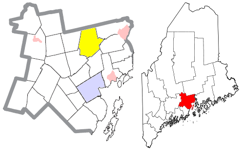 Map of the divisions of Waldo County, Maine, United States, with the town of Monroe highlighted in yellow. The city of Belfast is light blue; other towns are white; and pink areas are census-designated places within towns.